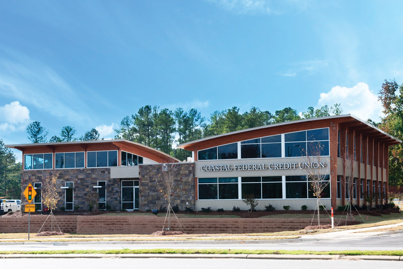 This is a Coastal Federal Credit Union branch located on Creedmoor Road in Raleigh, NC.